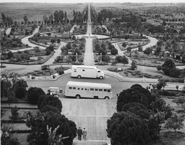 The front yard of The old hotel, Ramsar, December 26, 1973 - PD-iran (Photographic work After 30 years)